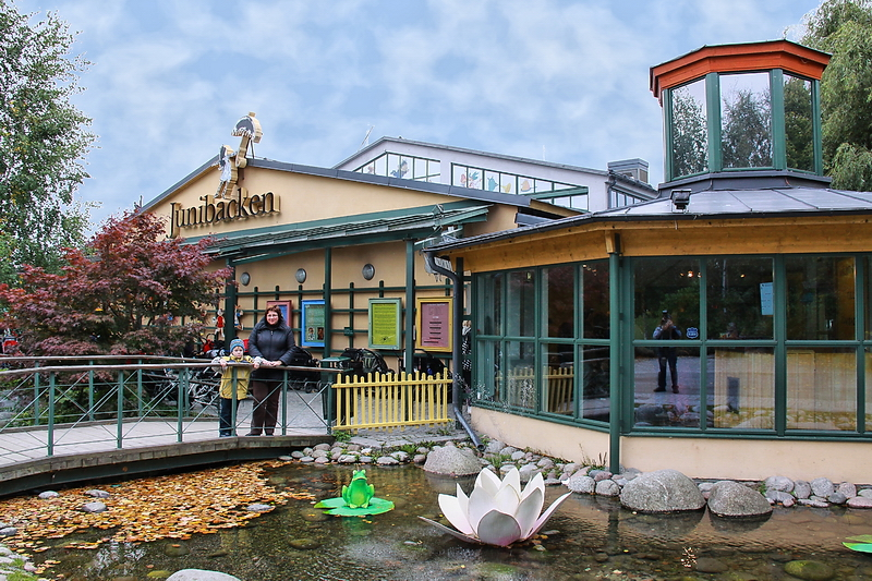 Junibacken